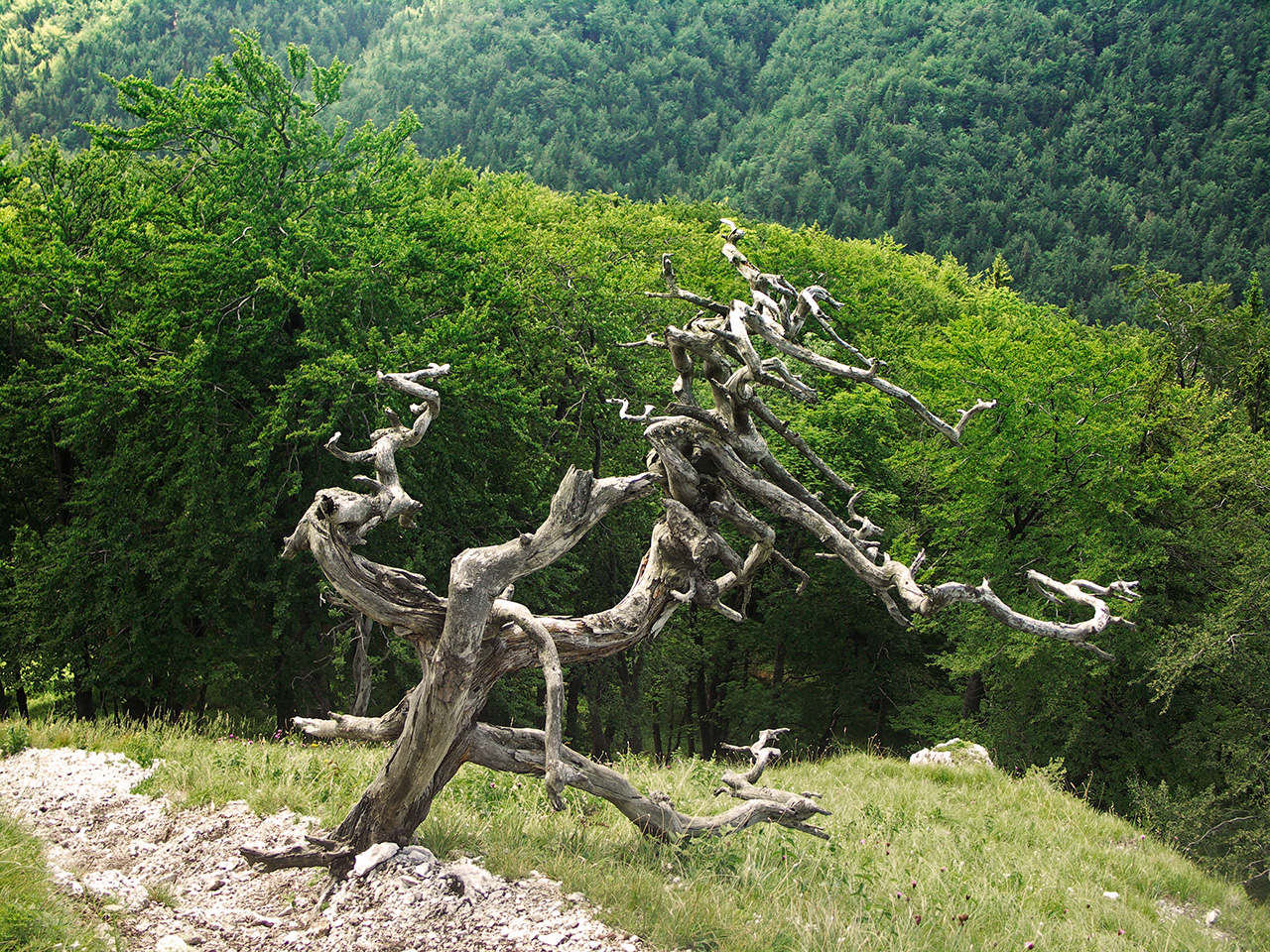 Emblematic tree near the summit of Drieňok Mountain in Greater Fatra, Slovakia